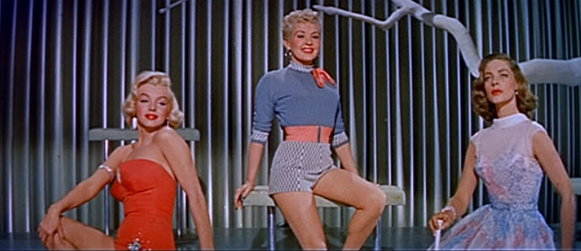 Cropped screenshot of Marilyn Monroe, Betty Grable and Lauren Bacall in the trailer for the film How to Marry a Millionaire